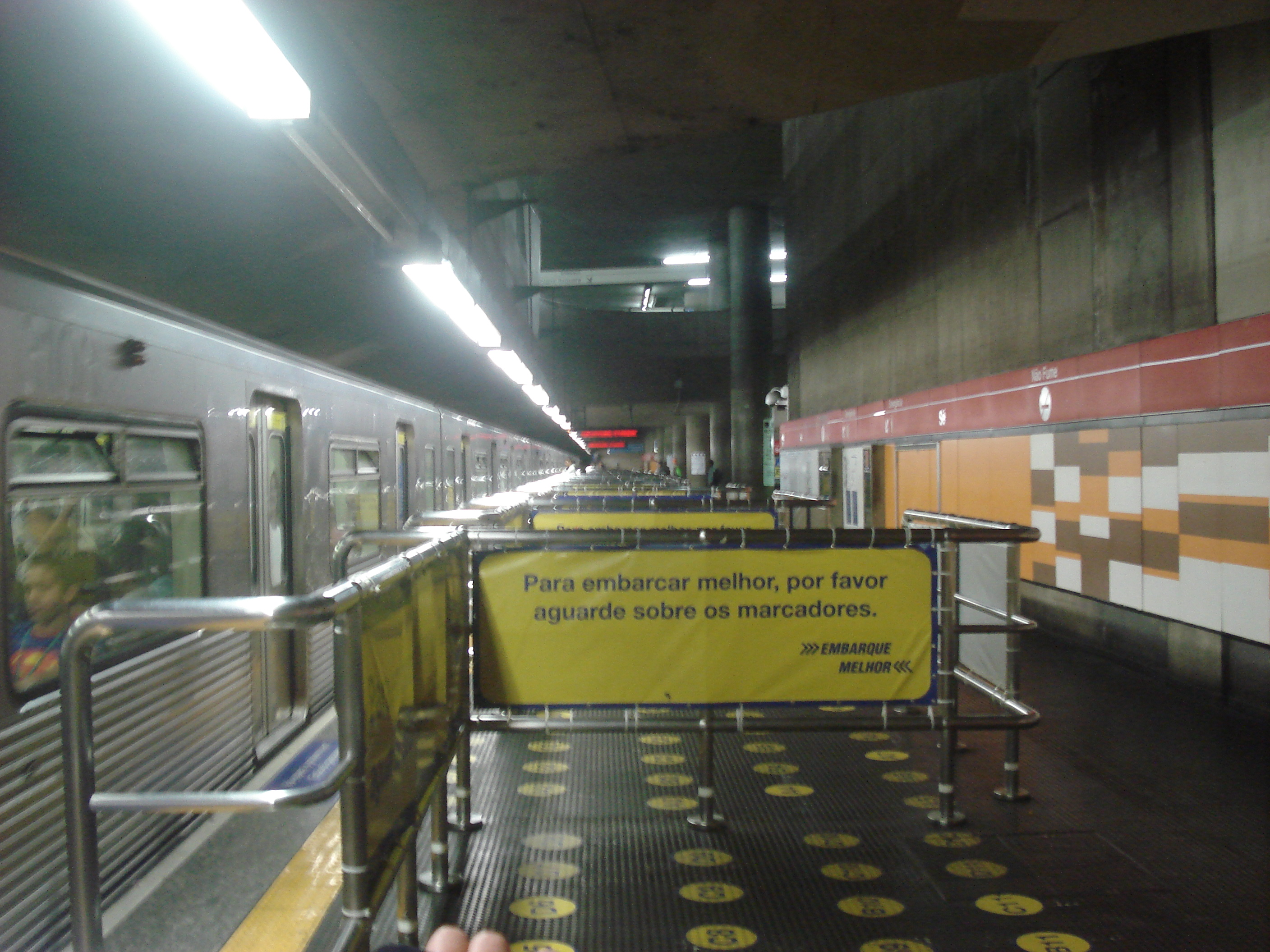 Sé Station - Line 3 - Red of São Paulo Metro.